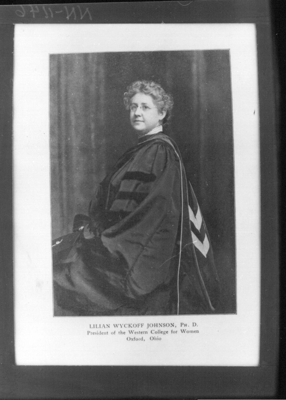 Persistent URL: Subject (TGM): College presidents; College administrators; Women's education; Reproductions; Portrait photographs; Location: Oxford, Ohio President of the Western College for Women, Oxford, Ohio.